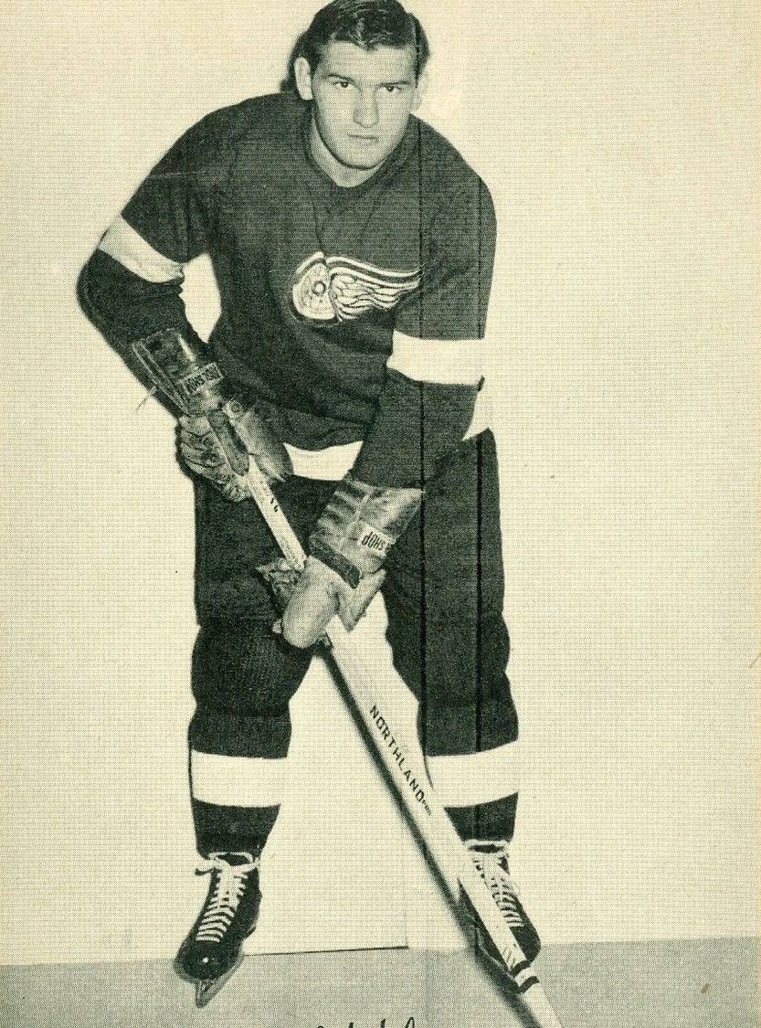 Johnny Wilson with the Detroit Red Wings in 1944